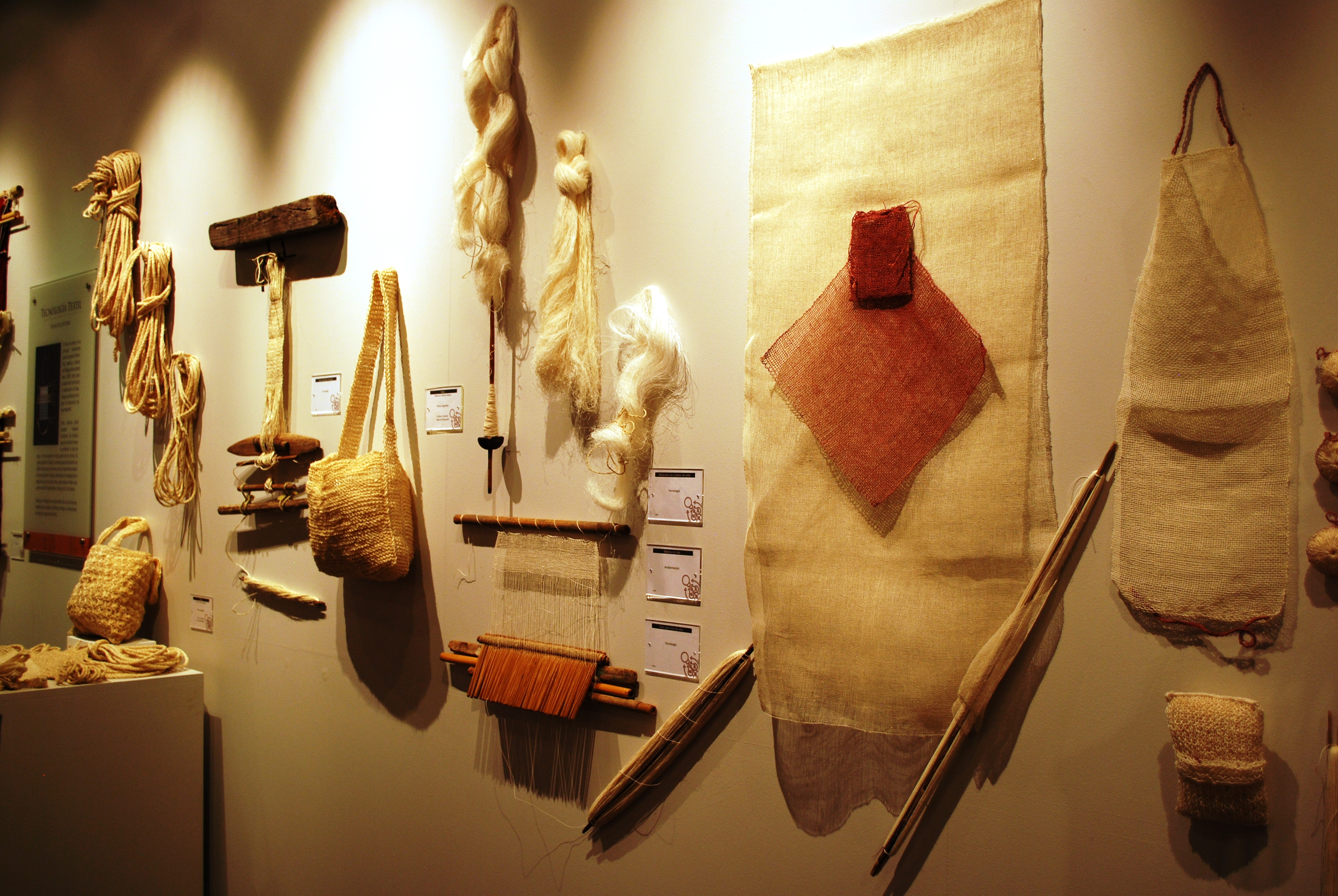 Various fibers and fibercrafts from Hidalgo on display at the Museo de Arte Popular in Mexico City as a part of a temporary exhibit about the state